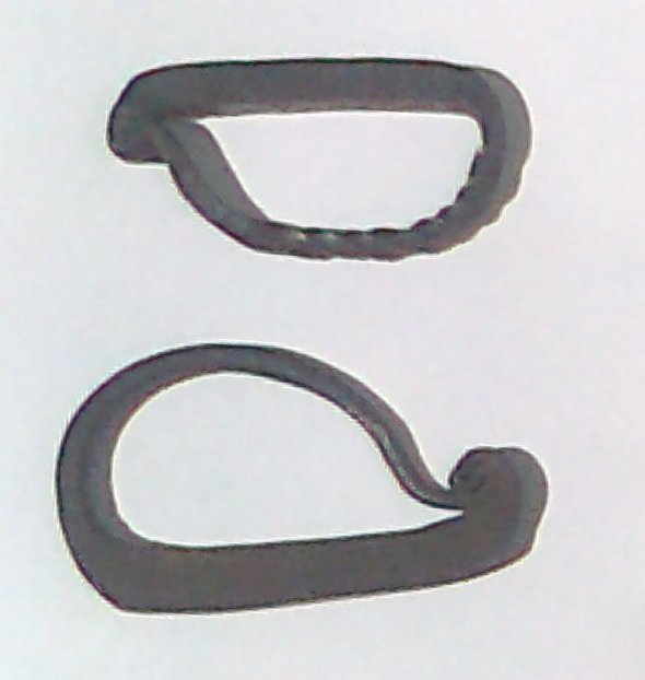 Firesteels, Britanny, late 18th century